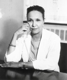 Jane Cooke Wright, oncologist and surgeon